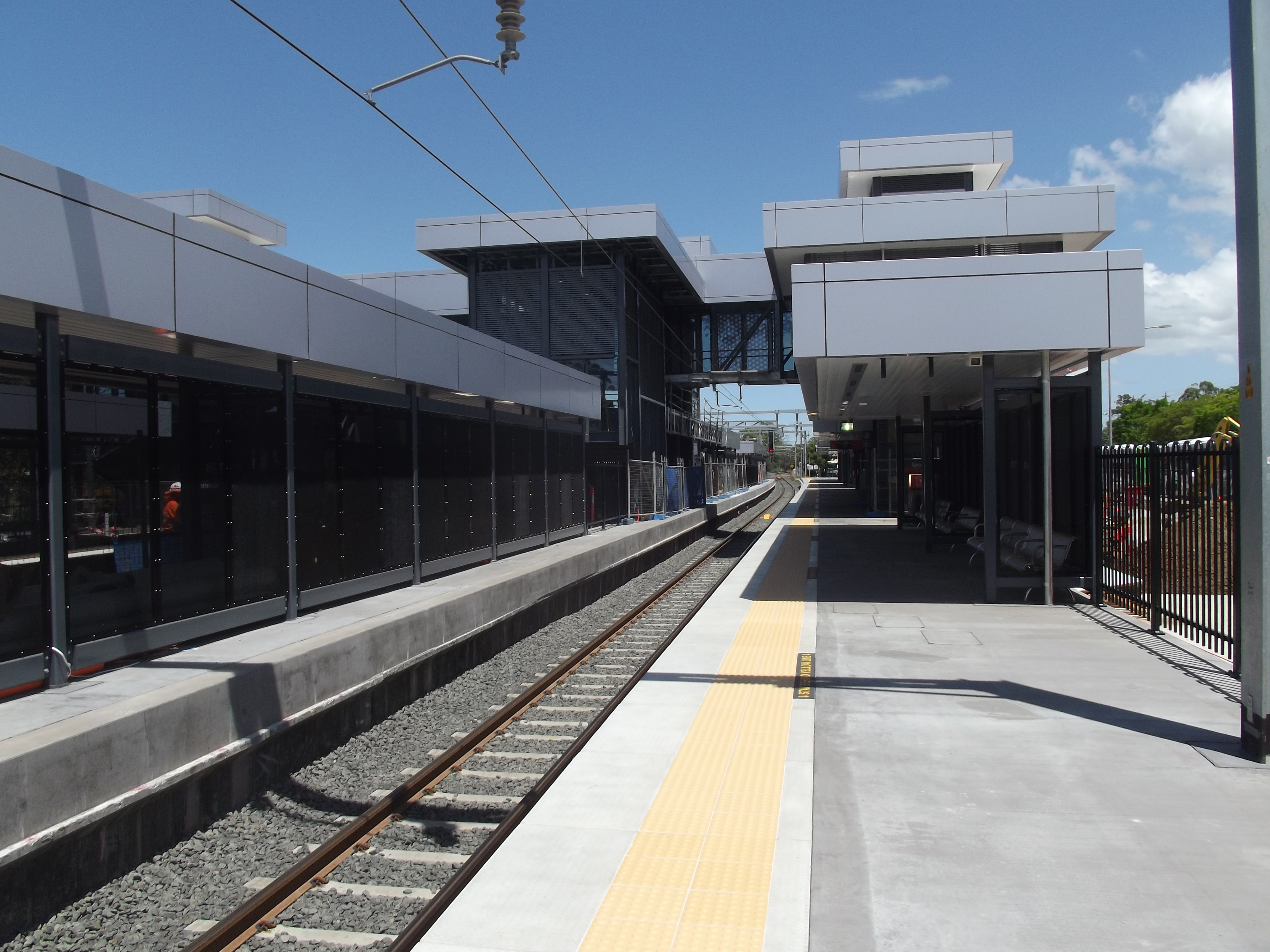 Just to basically show how the works are going on the new station.